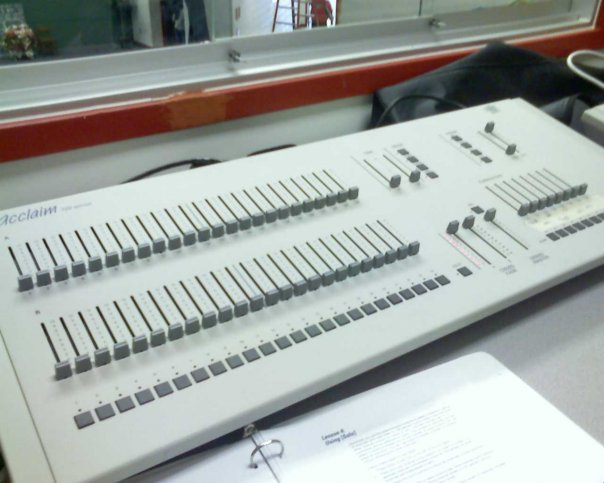 A 2 scene preset lightboard by ETC. Rachel Carson MS, Fairfax County VA.